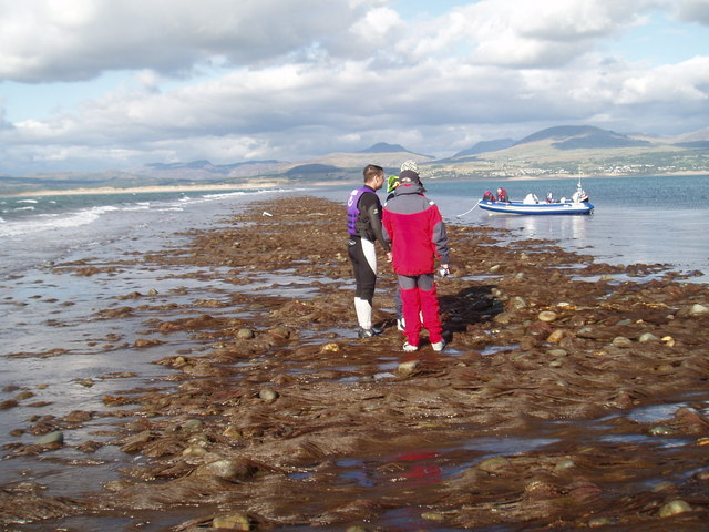 Sarn Badrig (St Patricks Causeway), Wales. Sarn Badrig is a reef (Remains of a glacial moraine, I think!) extending approx 10 miles out to sea, south west of Morfa Dyffryn (Shell Island). It is rarely seen, except at low water(Spring Tides). This photo was taken on Saturday 12Aug 06 at approx 6.30pm looking NE, 4km off shore. The hill to the right is Moelfre, with Rhinog Fawr in the background and Foel Ddu centre.